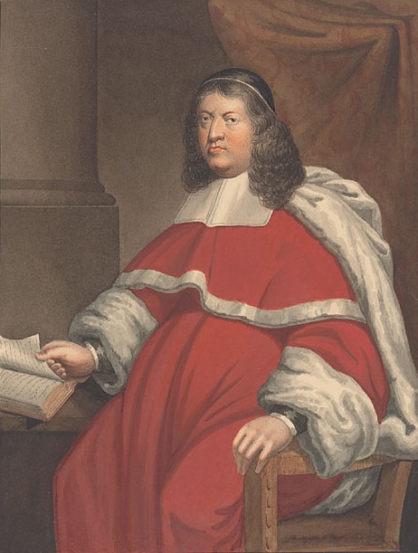 Sir Francis Pemberton(1624-1697)Chief Justice, Court of King's Bench, 1681-1682.